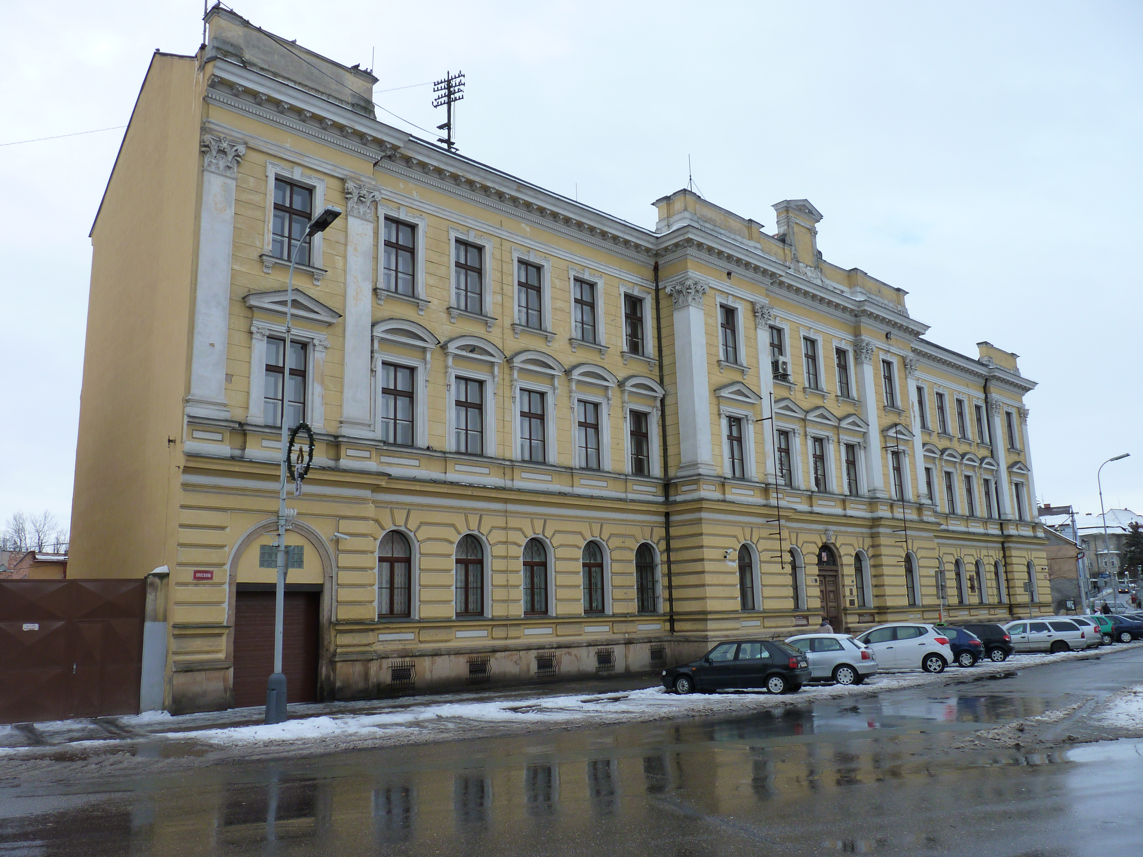 District court Kolín (Czech republic)